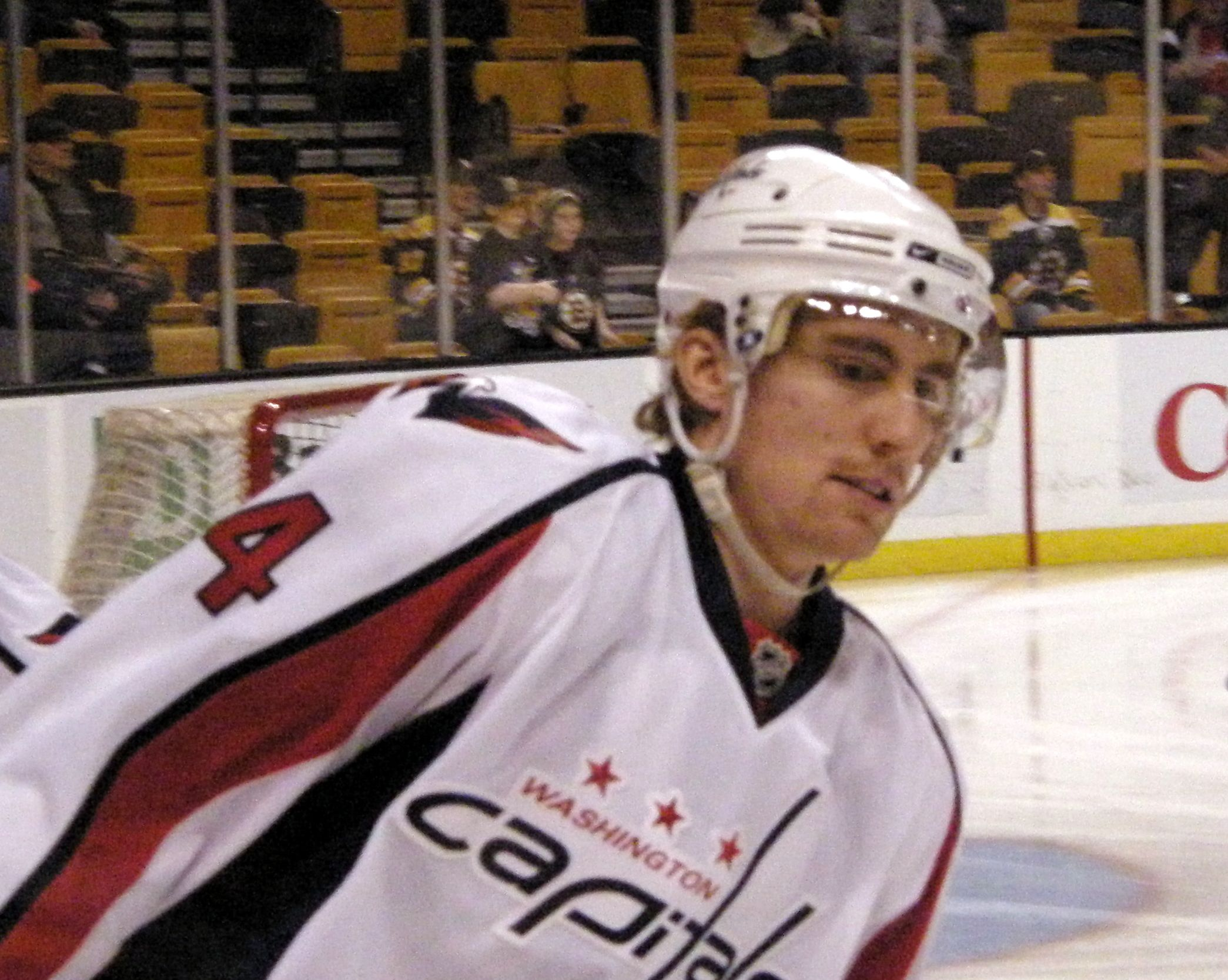 Tomáš Fleischmann